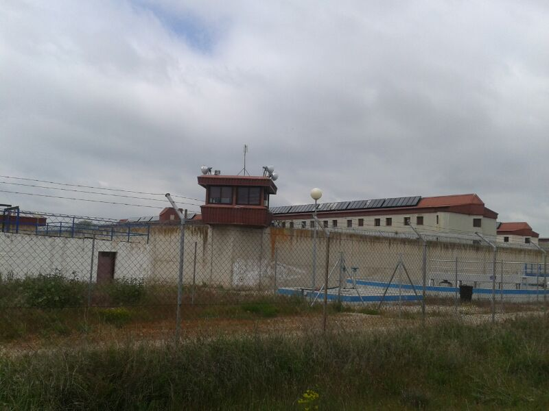 Villanubla prison, Valladolid, Spain.